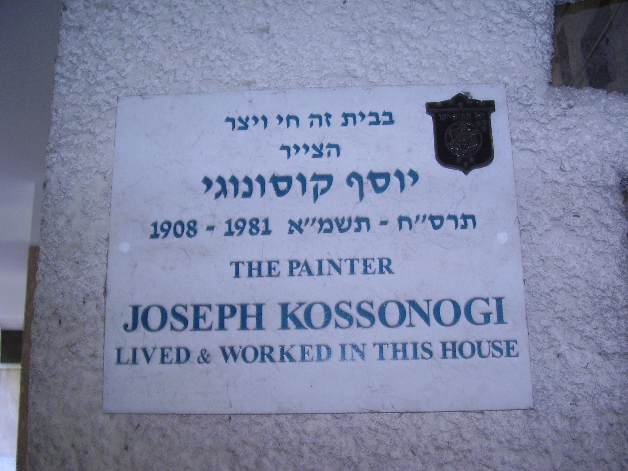 memorial plaque to the painter joseph kossonogi in tel aviv לוחית זיכרון על ביתו של הצייר יוסף קוסונוגי ברח' שדרות עמנואל הרומי 14 בתל אביב